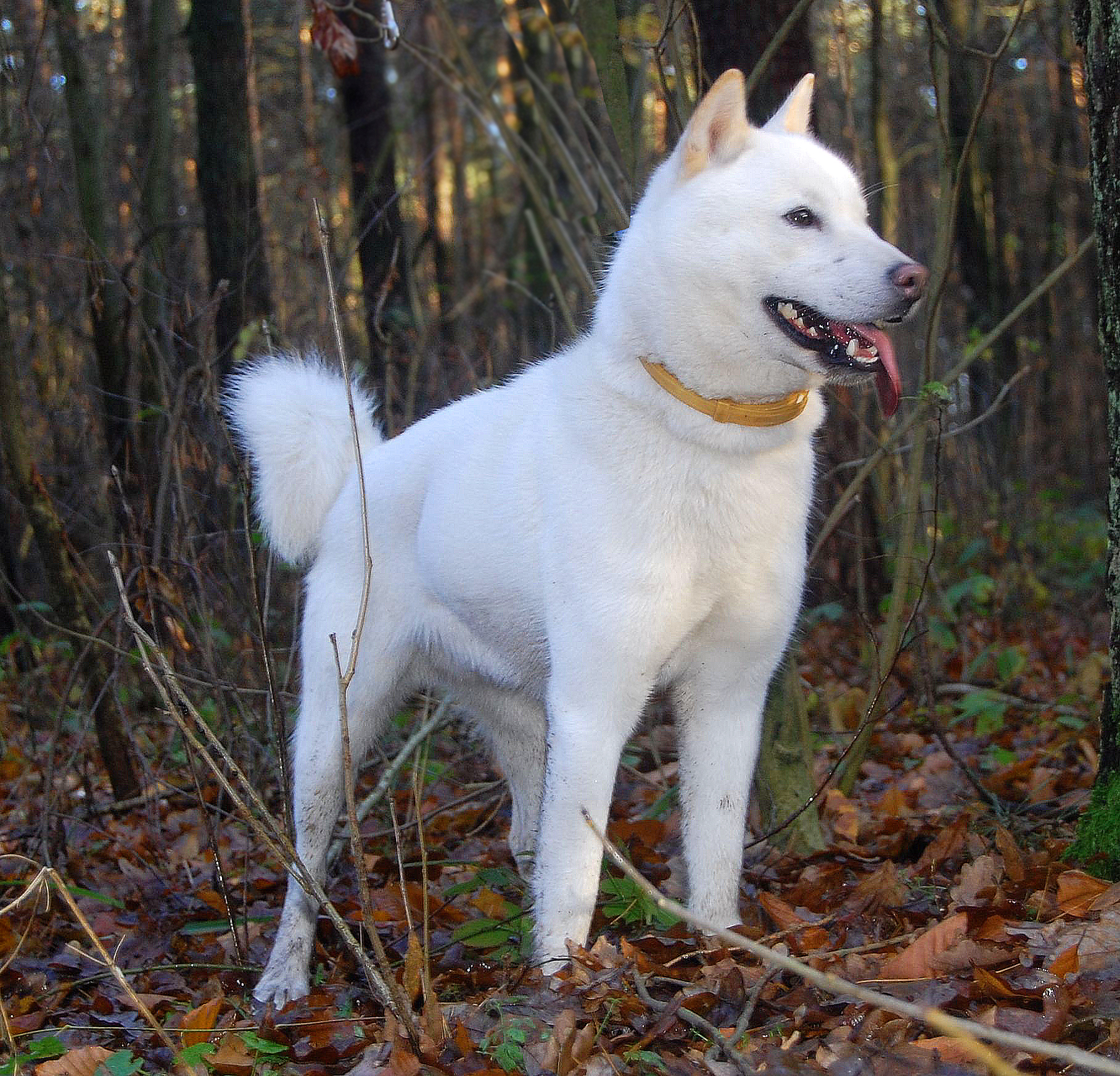 Hokkaido from the kennel HAKUGETSU, the owner - Katarzyna Jabłońska.